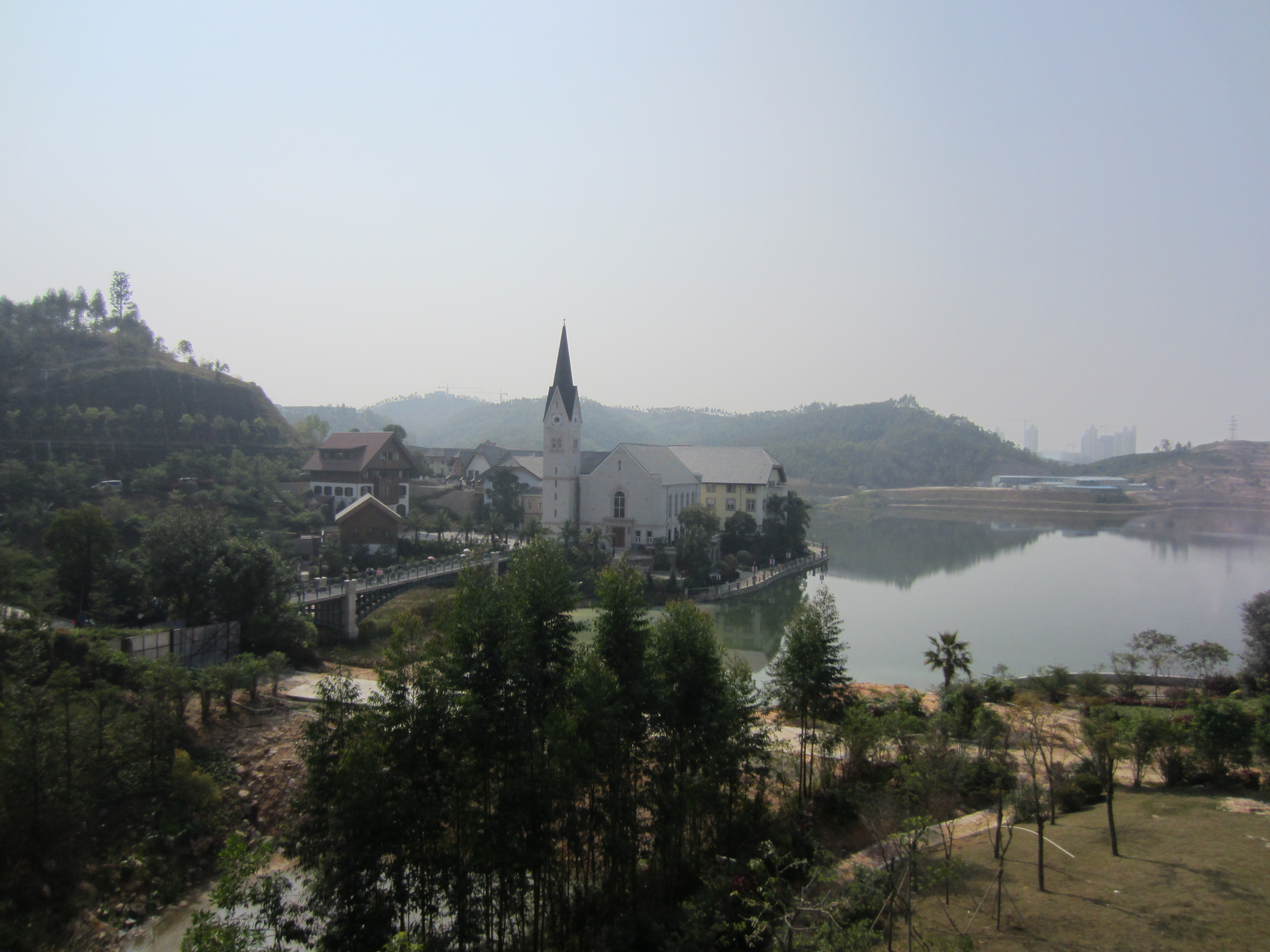 Replica of the austrian town Hallstatt in China.